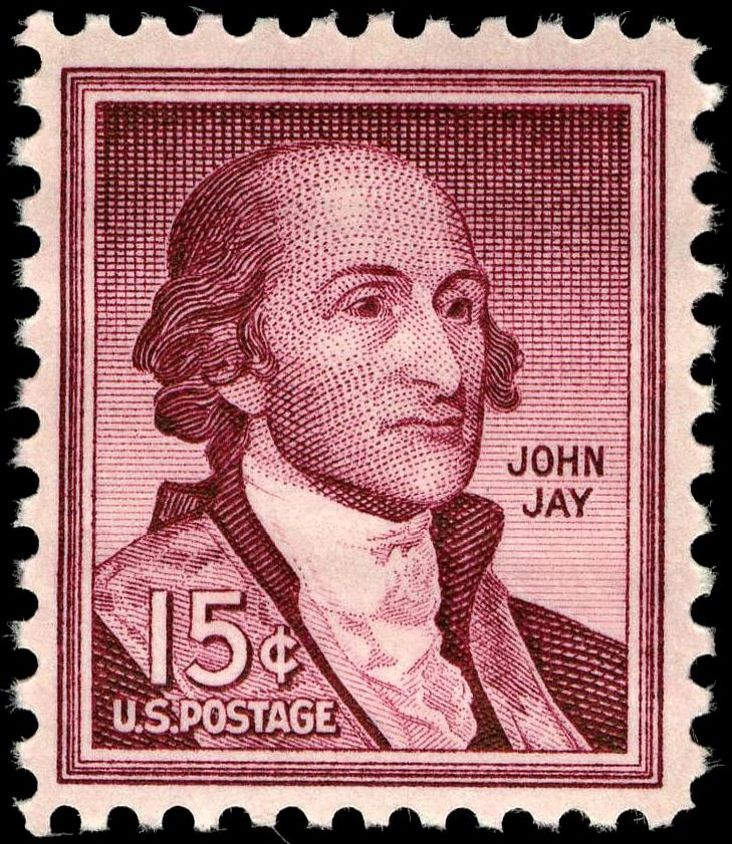 Image of US Postage stamp depicting John Jay